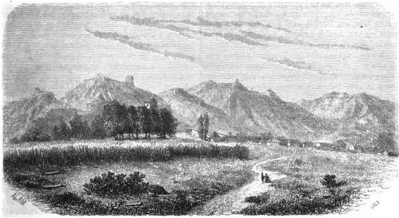 View of Cetinje, the capital of Montenegro.